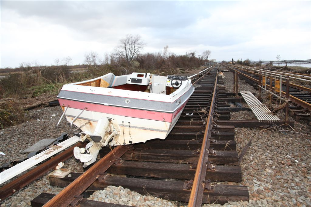 Damage on the New York City Subway's Rockaway Line (A train). Photo: MTA New York City Transit / Leonard Wiggins